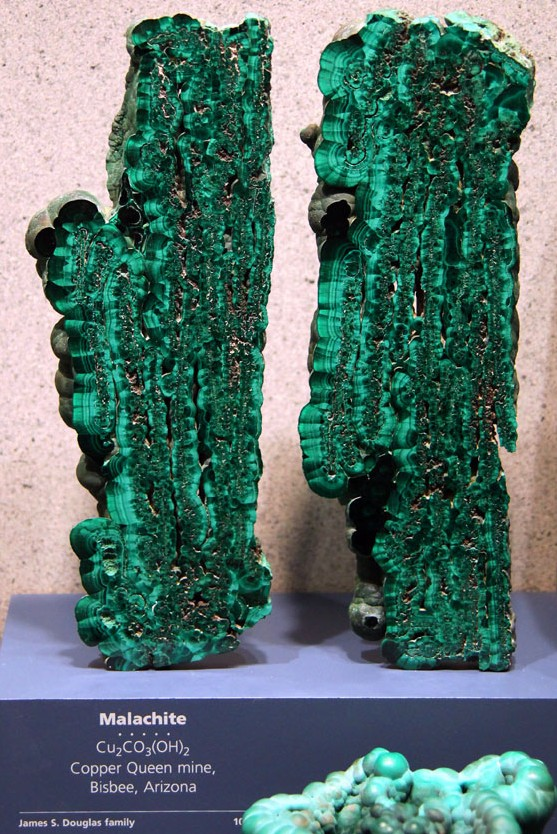 Malachite at the Hall of Geology, Gems, and Minerals of the Smithsonian Museum of Natural History in Washington, D.C. Malachite is made of copper, oxygen, and carbon molecules. It usually forms in blobular, fiber-like, or stalgmite shapes. But it can also form in large blocks (as seen here). This sample is part of a large display given to the Smithsonian by the family of James Douglas. Douglas was a Canadian who left seminary to become a mining engineer. He became a director of the massive Phelps Dodge mining concern; purchased the properties that would later become the fabled Copper Queen mine near Bisbee, Arizona; and founded the town of Douglas, Arizona. He became one of the richest men in the world, and endowed a number of hospitals, libraries, universities, and other institutions in Canada. Douglas collected the best minerals found in the Copper Queen, and took them for his own.